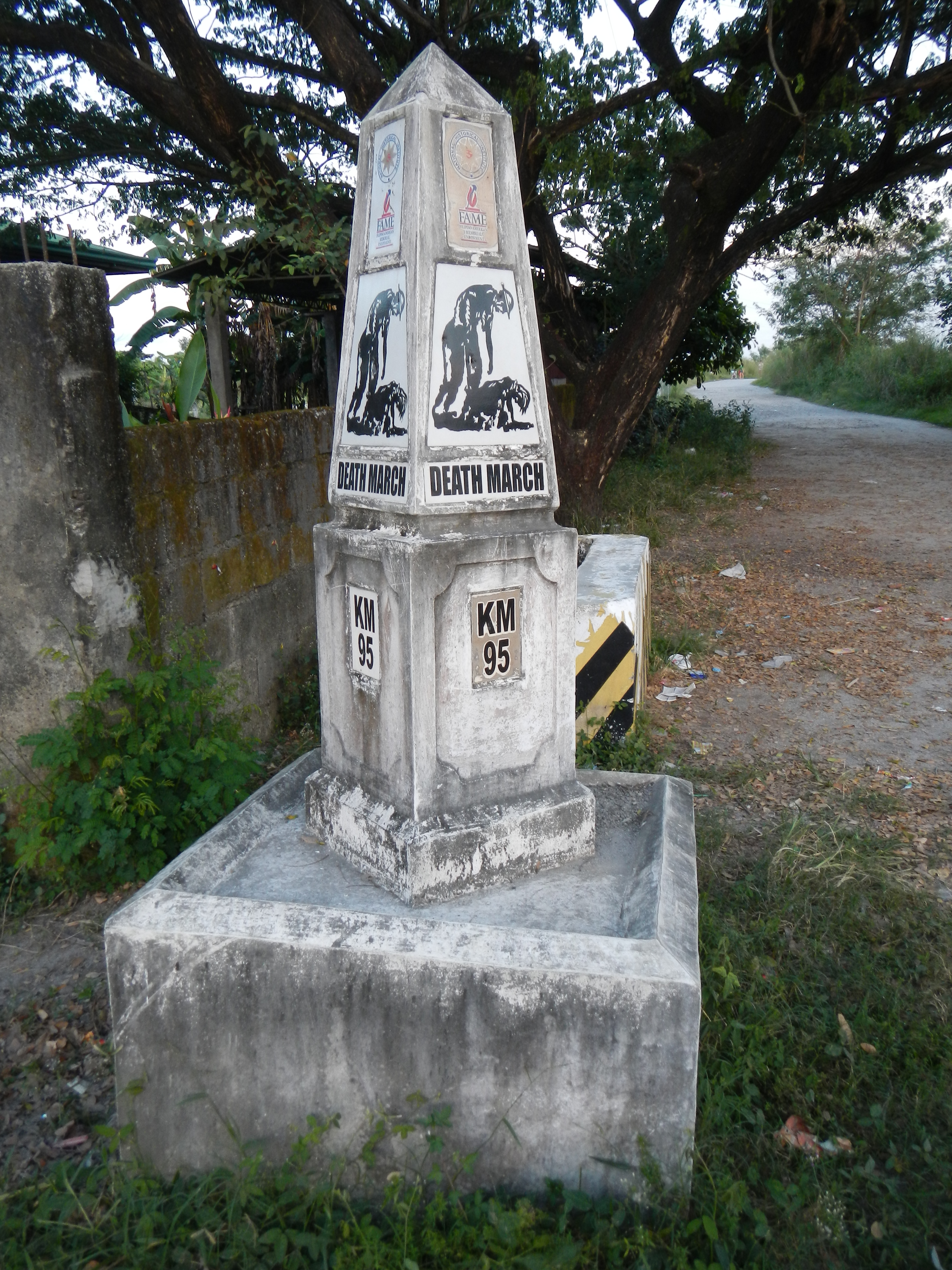 Bacolor, Pampanga[1]